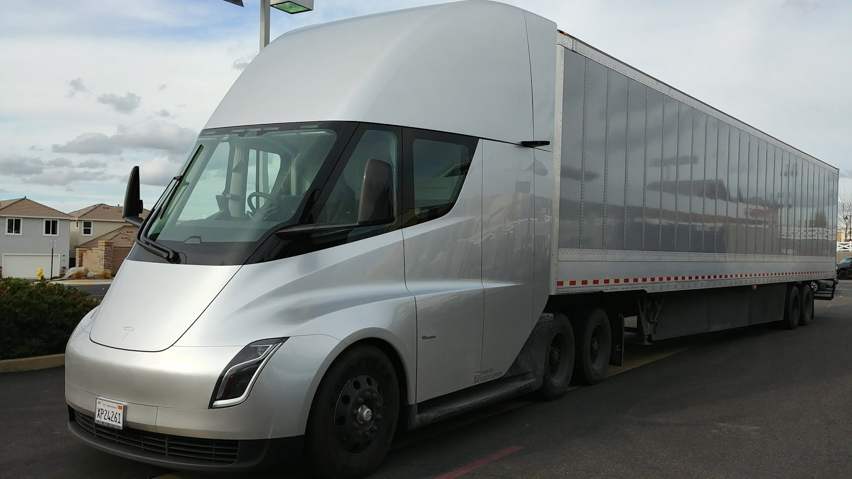 A silver Tesla Semi in Rocklin, California